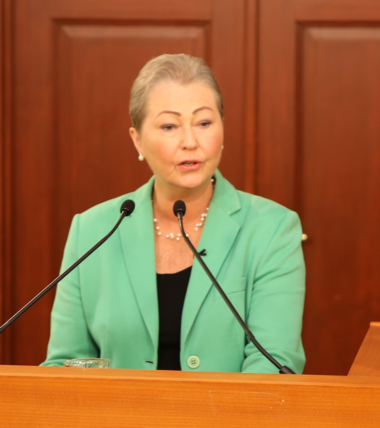 Announcement of the Nobel Peace Price for 2016Nobel Institute. Kaci Kullmann Five, Olav Njølstad, press